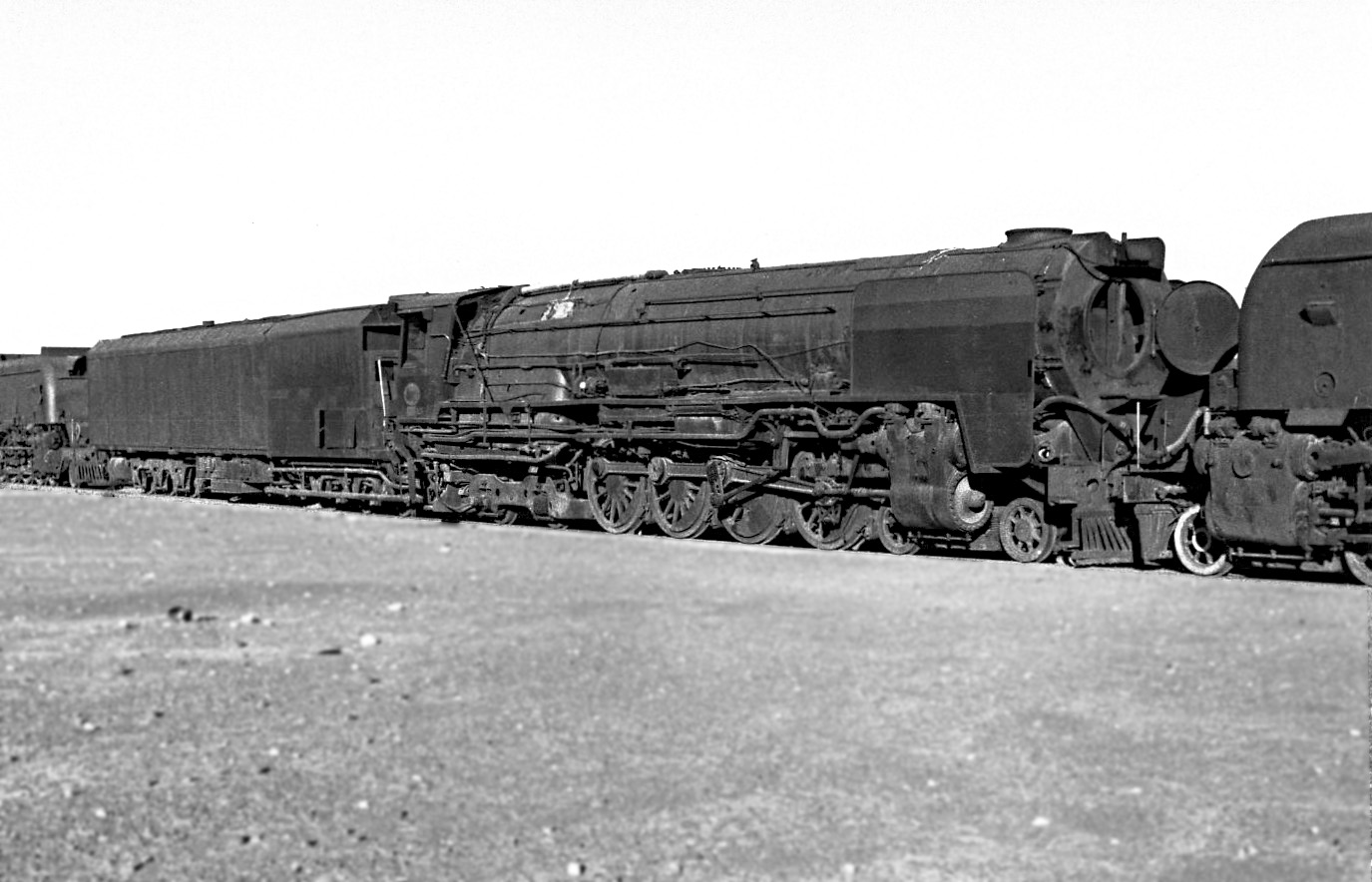 SAR Class 25 3451 (4-8-4) Henschel Location: De Aar